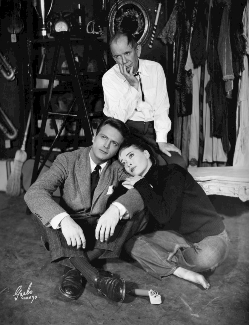 Photo from the 1951 Broadway play Angel in the Pawnshop. Seated - Herbert Evers (aka Jason Evers) and Joan McCracken. Standing - Eddie Dowling.